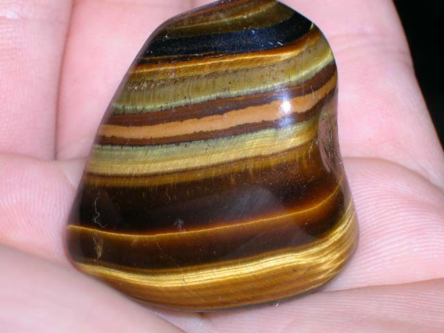 Tiger's eye , From South Africa . Yuval Gelber